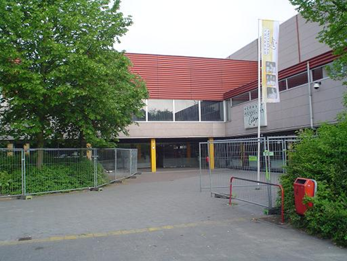 A picture of the main building of Hermann Wesselink College, a secondary school in Amstelveen, The Netherlands. The picture was taken during the construction of a new parking lot for bikes.